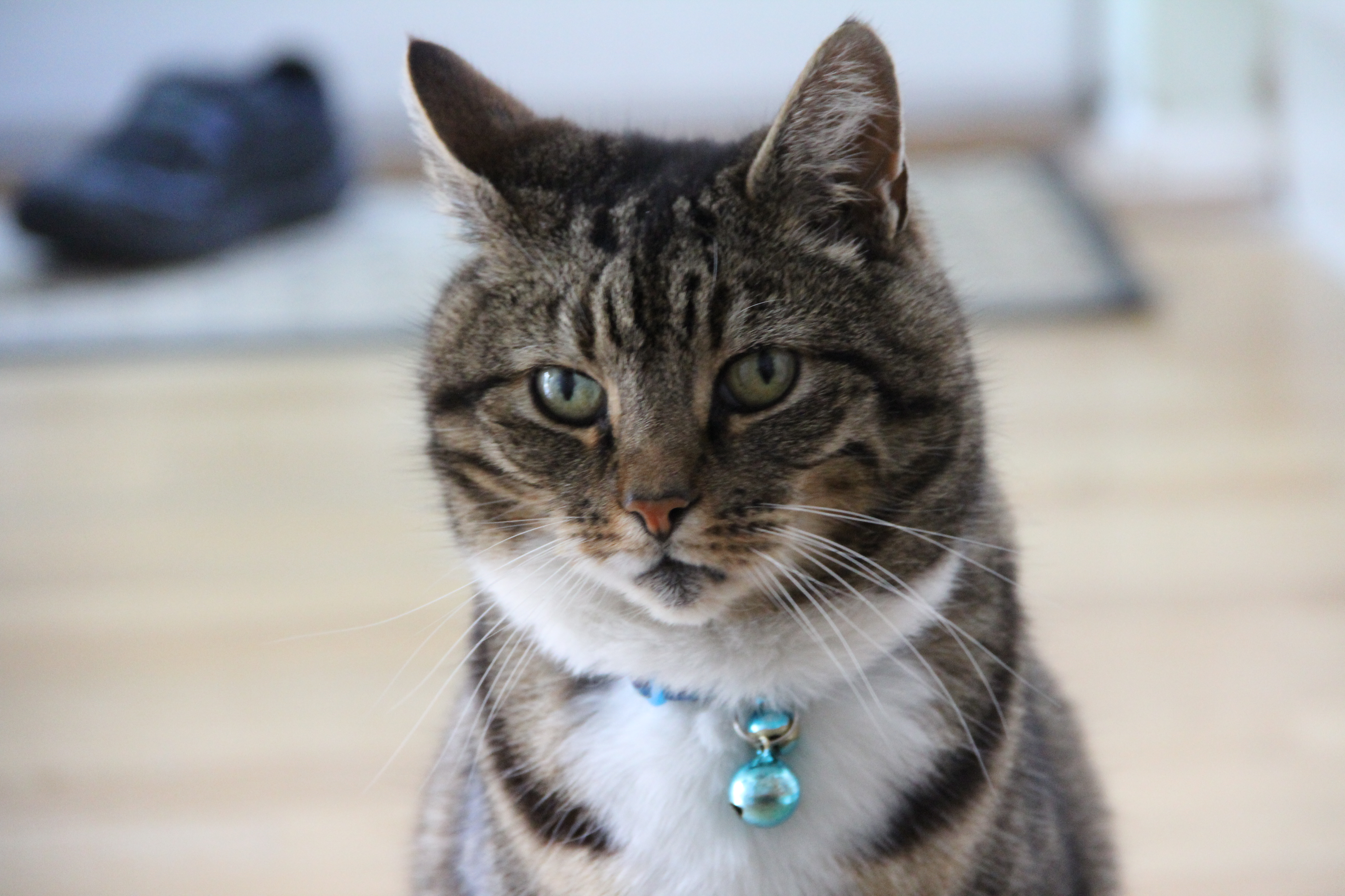 Cat and a shoe showing depth of field